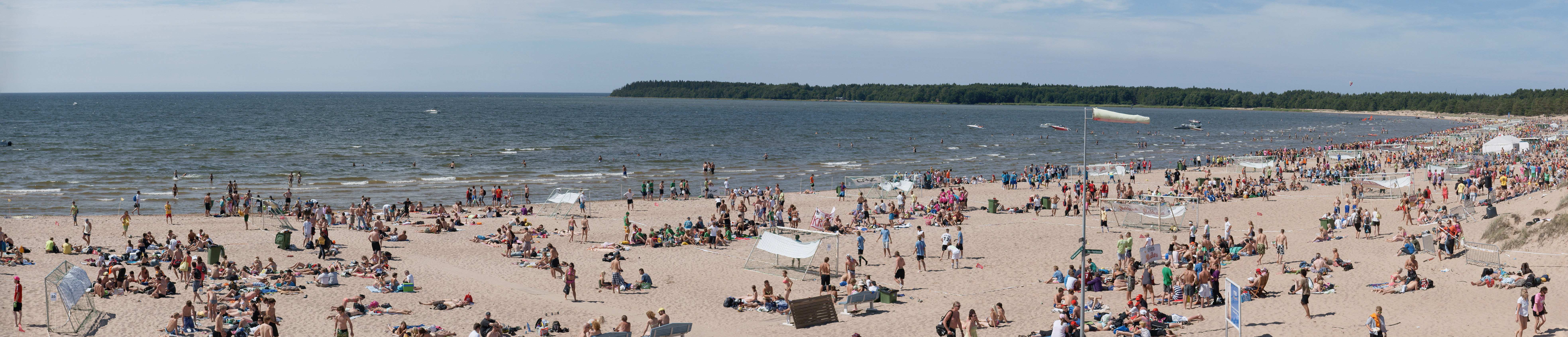 Yyteri beach during Yyteri Beachfutis.